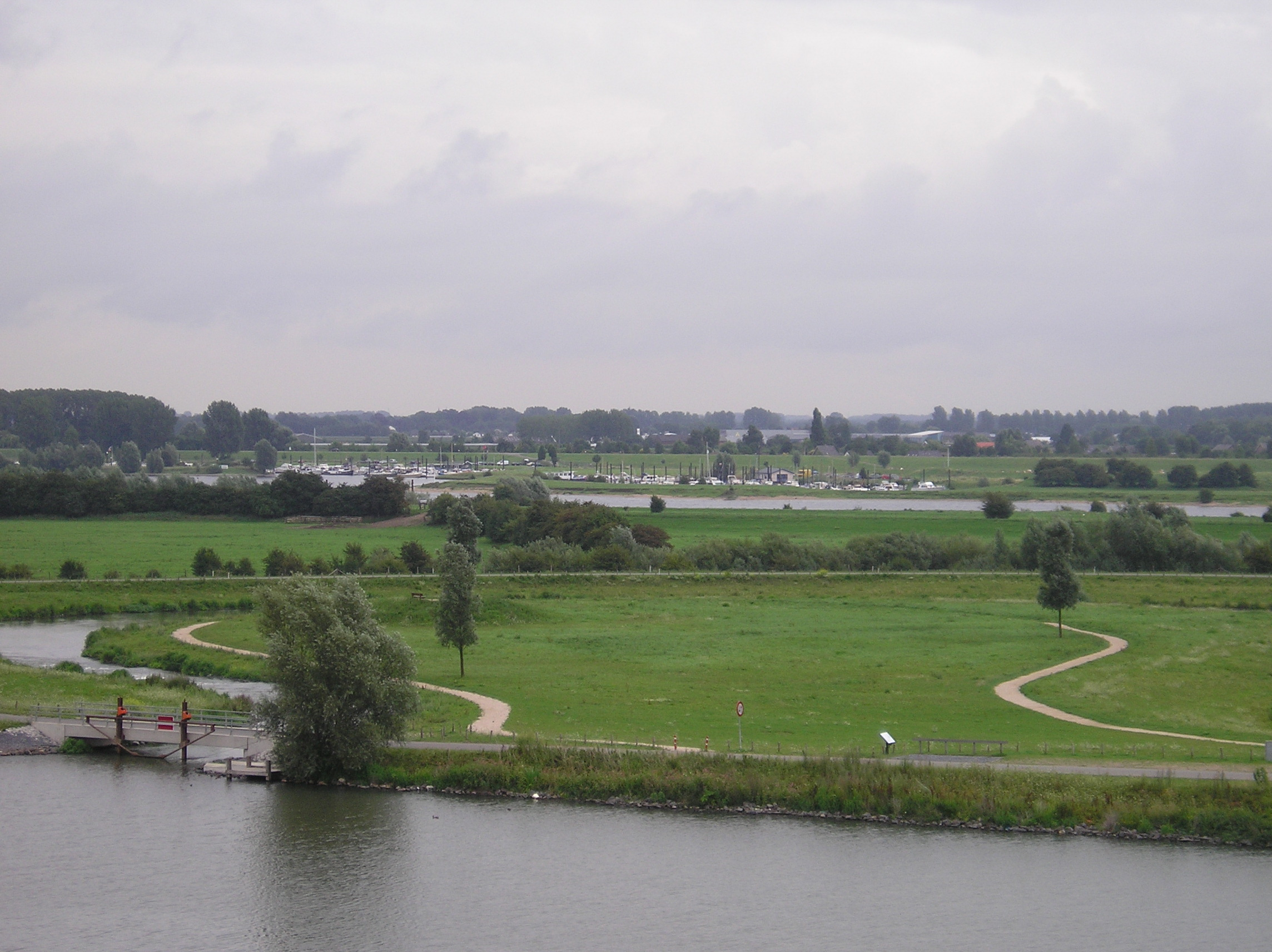 Fish ladder (Amerongen)